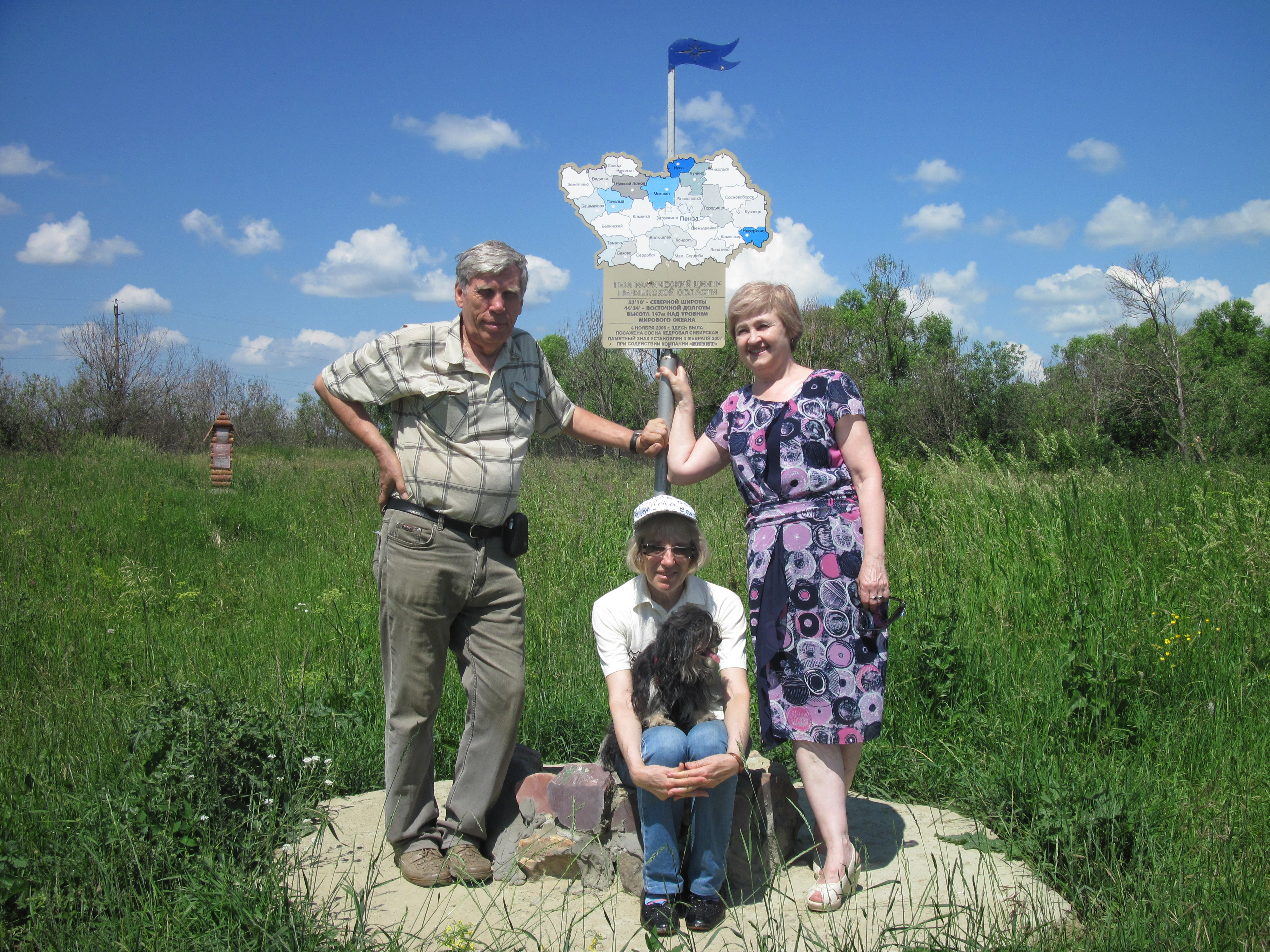 Geo Center of Penza region